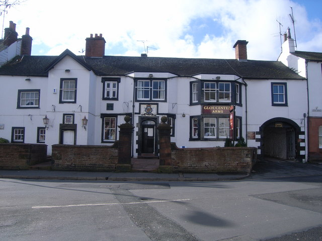 Gloucester Arms Pub